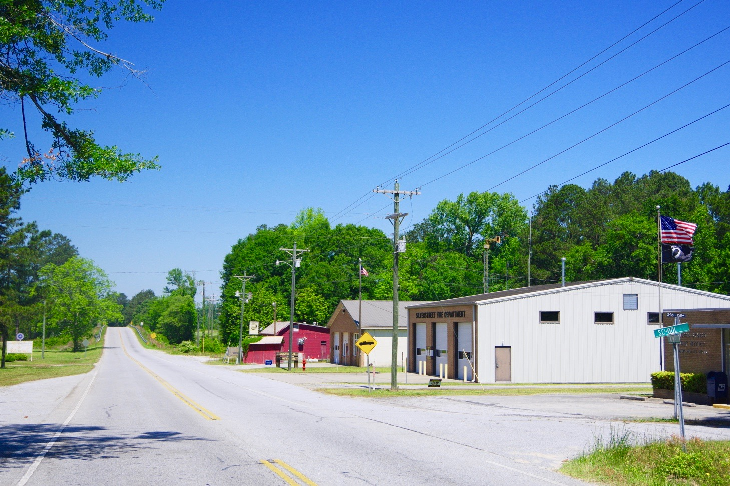 Main Street (South Carolina Highway 34) in Silverstreet, South Carolina, United States.